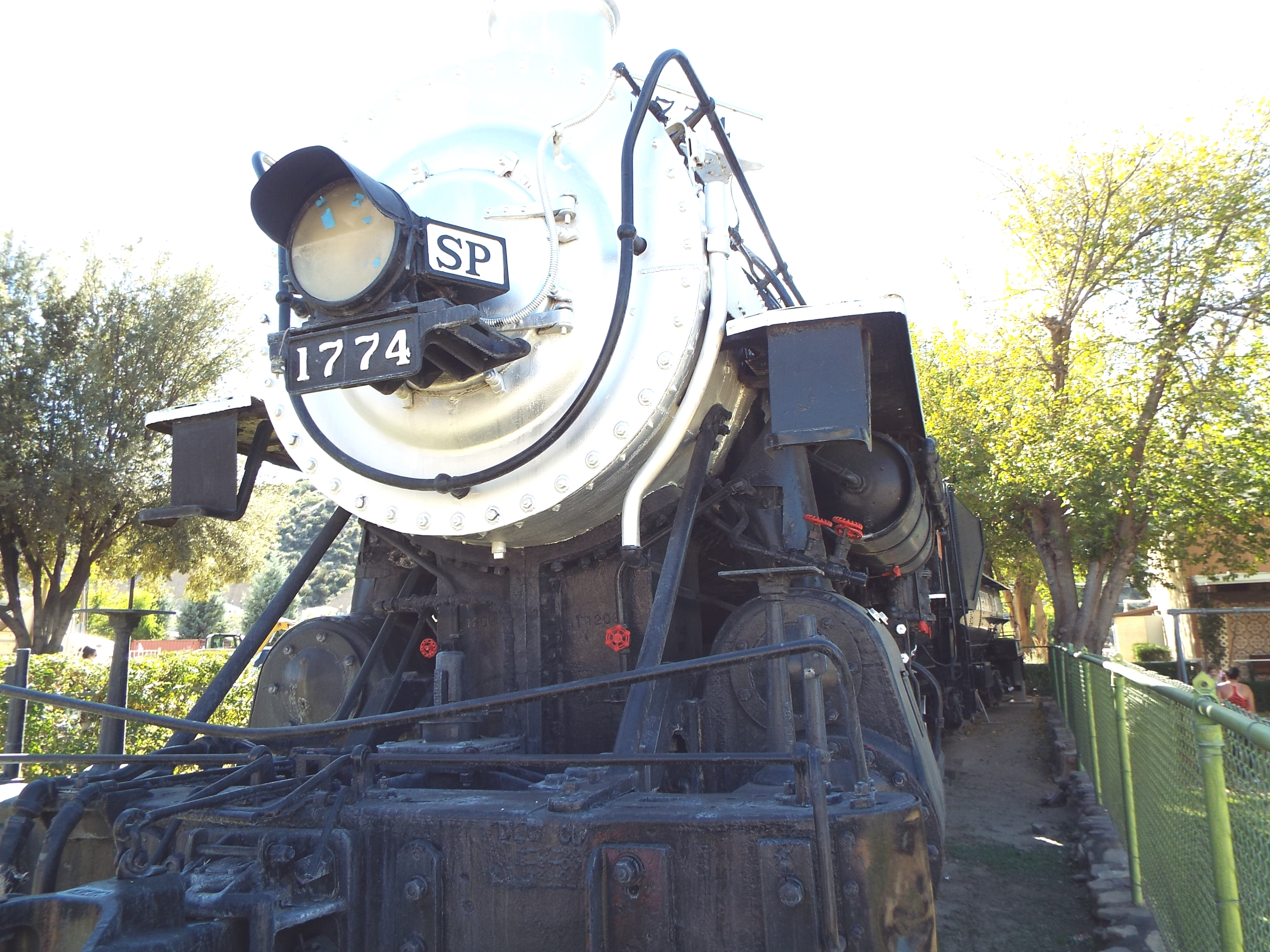 Globe-Steam Engine #1774 / M-8 / 2-6-0 / 4’-81/2” from the Southern Pacific Railroad. Built in 1901 by Burnham, Williams #20436. It is one of only seven still in existence in the world today. Within the Globe’s Historic District